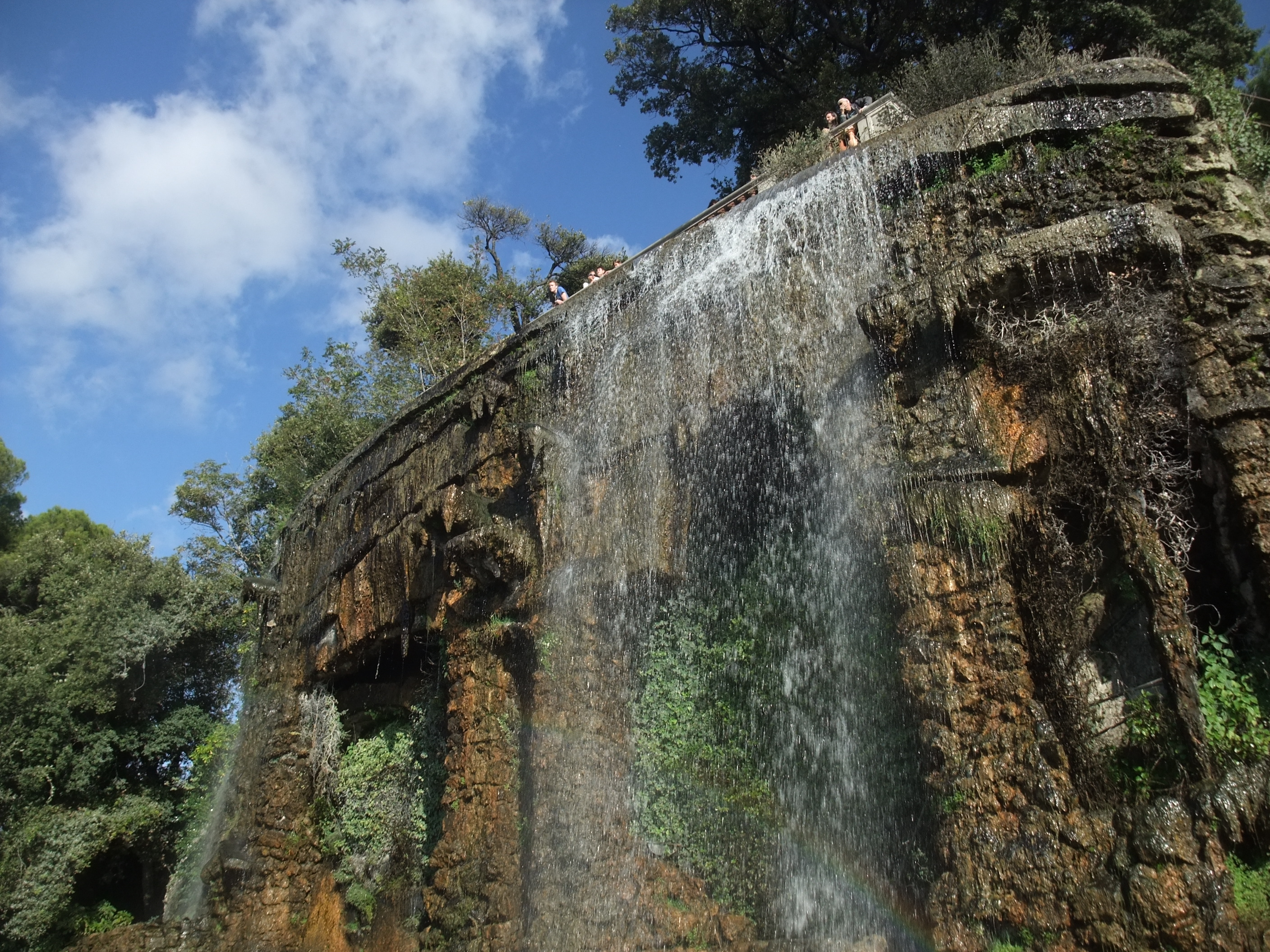 I took this photo with my own camera and own the complete rights to this photo.